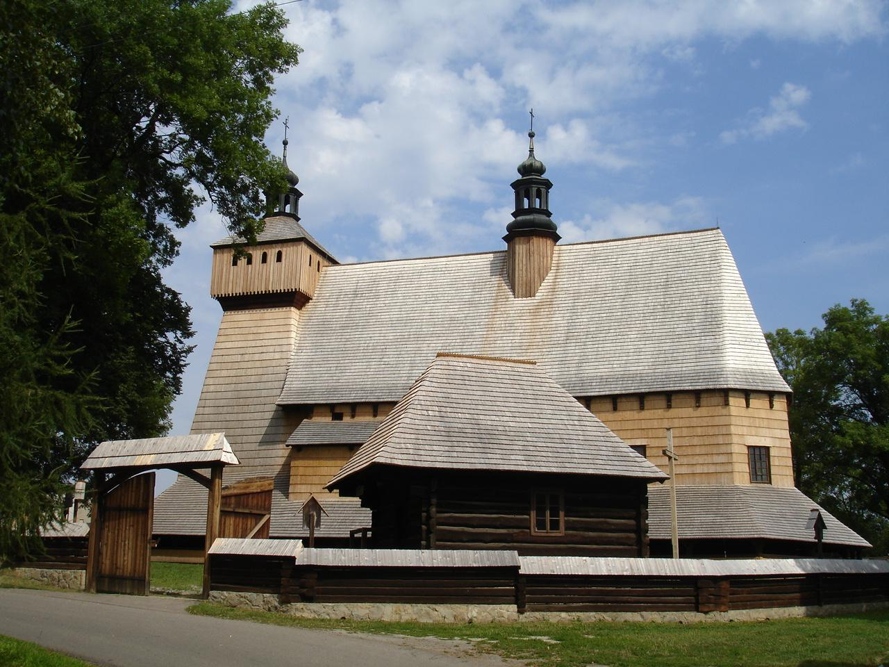 Church under call of Assumption of Holy Mary and St. Michael's Archangel in Haczów (Poland), the oldest wooden gothic temples in Europe, erected in the 14th century, on the UNESCO list of World Heritage Sites since 2003.